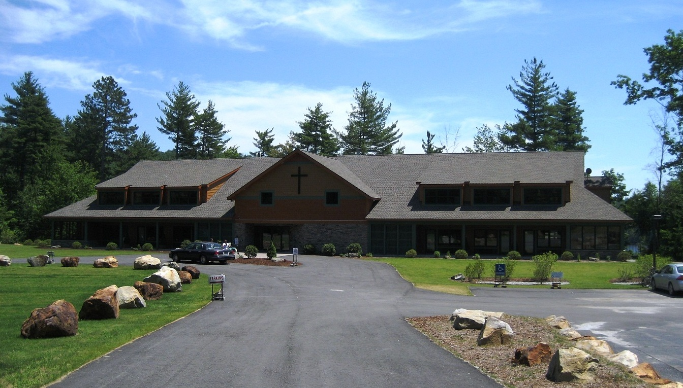 The Retreat Center at the St. Methodios Camp and Retreat Center in Contoocook, New Hampshire.